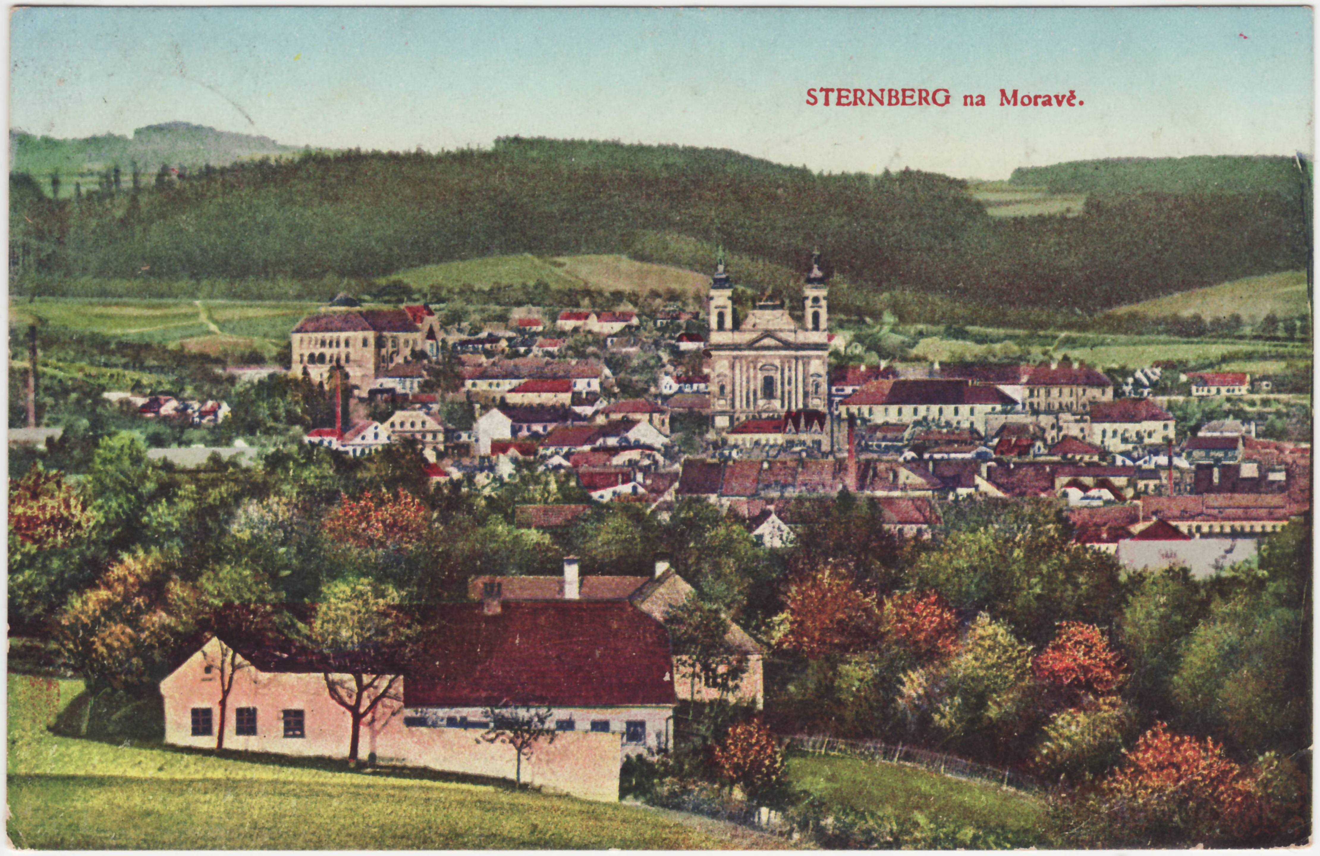 Historical postcard with the view of Šternberk from the west-southwest.